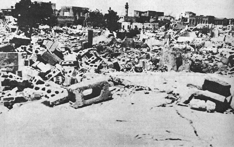 Ruins of Lydda after the Israel Defense Forces invaded it in July 1948. See 1948 Palestinian exodus from Lydda and Ramla. This work or image is now in the public domain because its term of copyright has expired in Israel. According to Israel's copyright statute from 2007 (translation), a work is released to the public domain on 1 January of the 71st year after the author's death (paragraph 38 of the 2007 statute) with the following exceptions: A photograph taken on 24 May 2008 or earlier — the old British Mandate act applies, i.e. on 1 January of the 51st year after the creation of the photograph (paragraph 78(i) of the 2007 statute, and paragraph 21 of the old British Mandate act). If the copyrights are owned by the State, not acquired from a private person, and there is no special agreement between the State and the author — on 1 January of the 51st year after the creation of the work (paragraphs 36 and 42 in the 2007 statute). See also category: PD Israel & British Mandate.